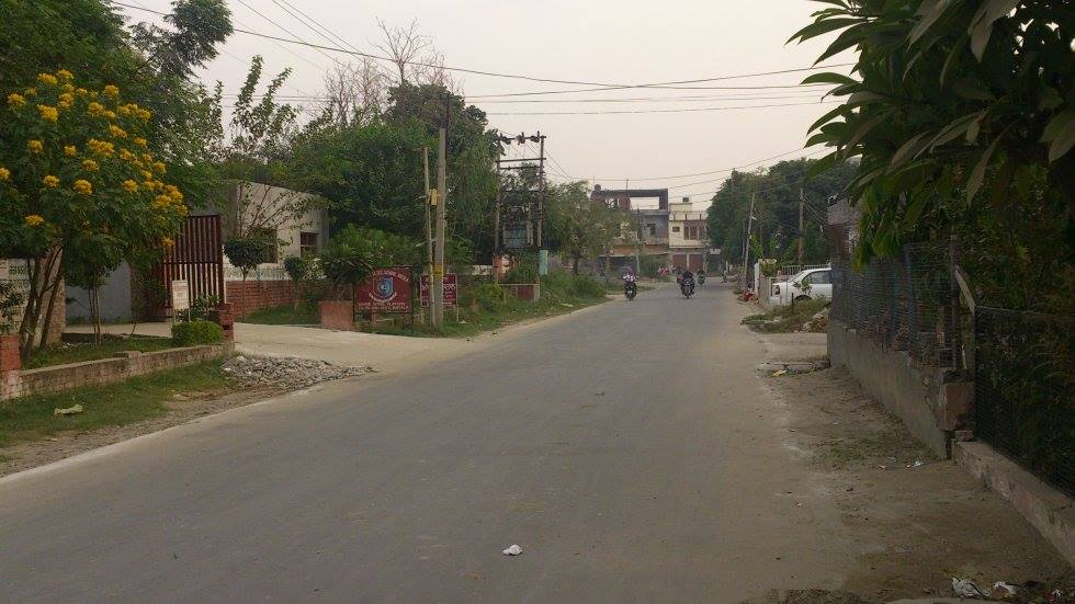 \Dharampura colony in Batala.